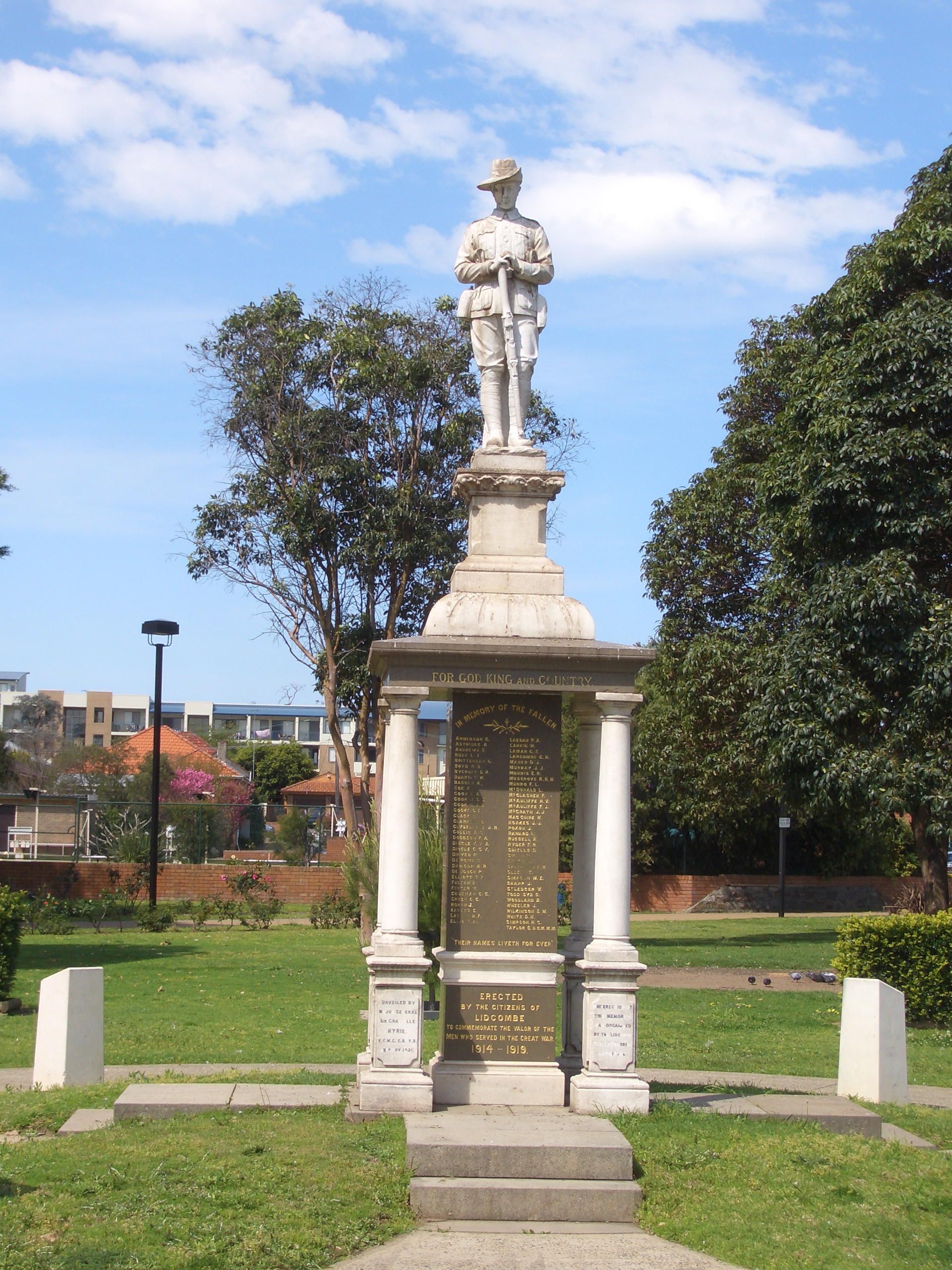 War Memorial in Remembrance Park (formerly Wellington Park), located on the corner of Joseph and James Streets, Lidcombe, New South Wales, Australia. Various inscriptions and metal name plates for both World Wars are located on various parts of the memorial.